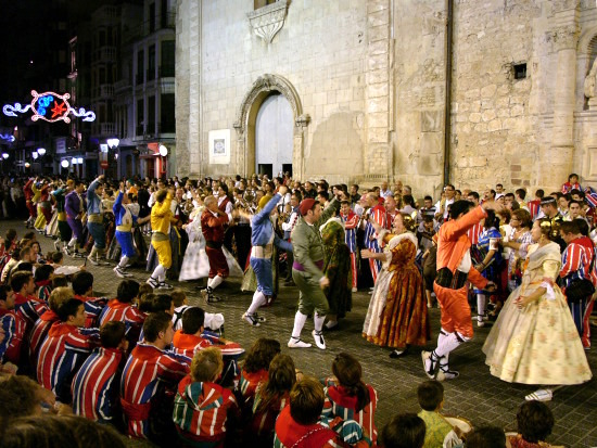 seventh folk troupe in the Virgin of Salut feasts dancing boleros in front of Saint James church in Algemesí